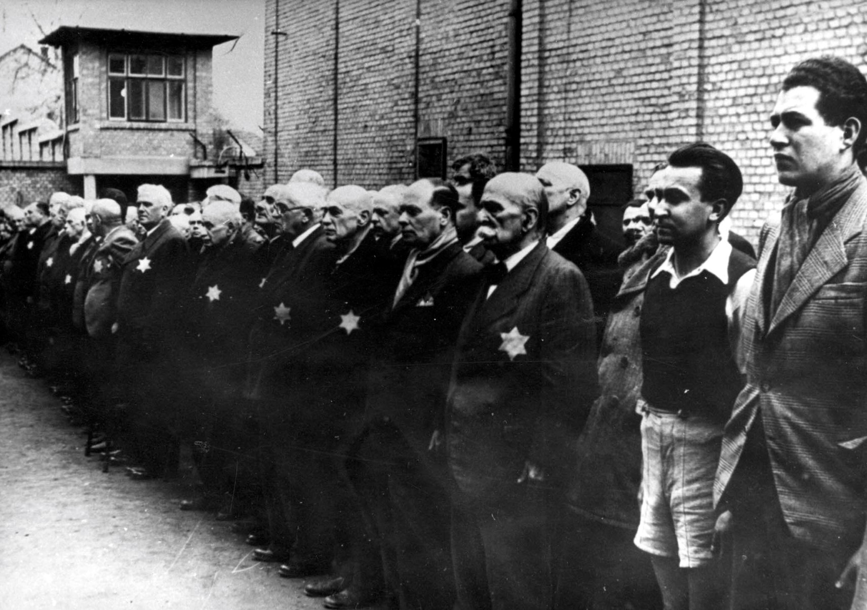 Jews in Kistarcsa